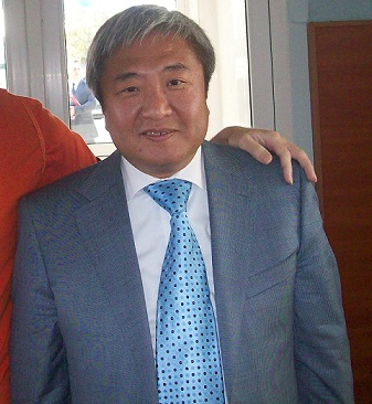 Oleksandr Sin; Ukrainian politician and Mayor of Zaporizhia from 2010 till 2015.